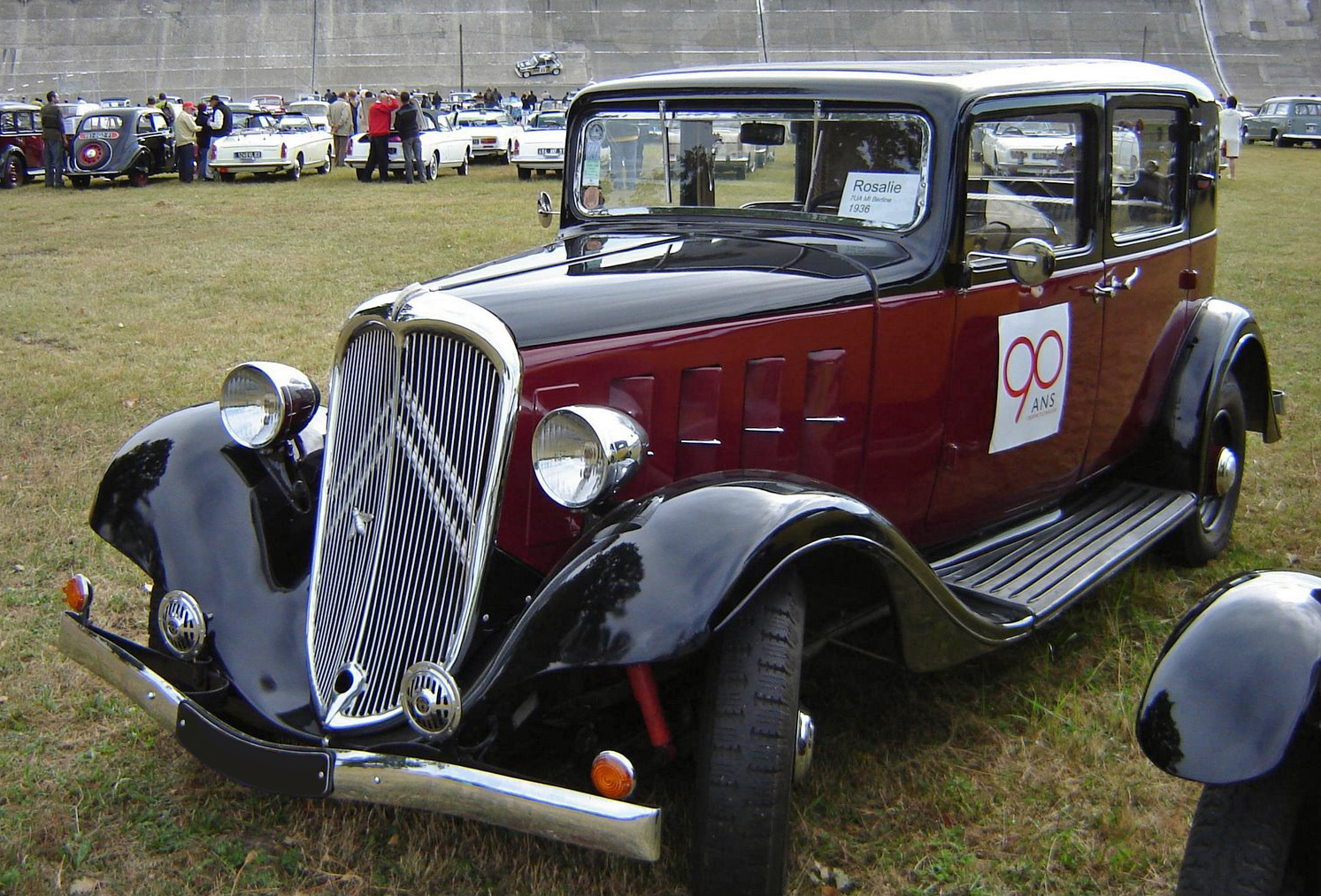 1936 Citroën Rosalie 7UA MI (with the 7C Traction Avant's OHV 1,628cc engine) at the Autodrome de Linas-Montlhéry, 2009. This was largely equivalent to the earlier Rosalie 8.